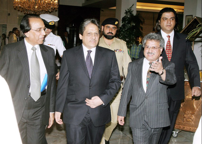 Governor Sindh Dr. Ishrat-ul-Ibad Khan at the first convocation of Indus University